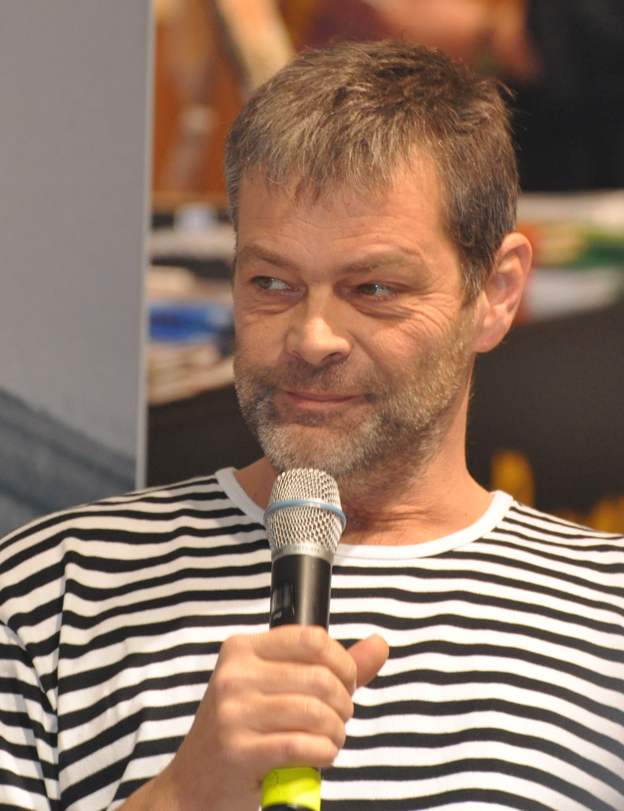 Finnish writer Roman Schatz at the Helsinki Book Fair 2010.